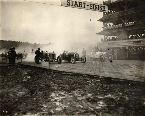 The grid for the 1915 American Grand Prize race at the Panama-Pacific International Exposition in San Francisco. #15 - Claude Newhouse, Delage, #6 - Glover Ruckstell, Mercer, #8 - Earl Cooper, Stutz